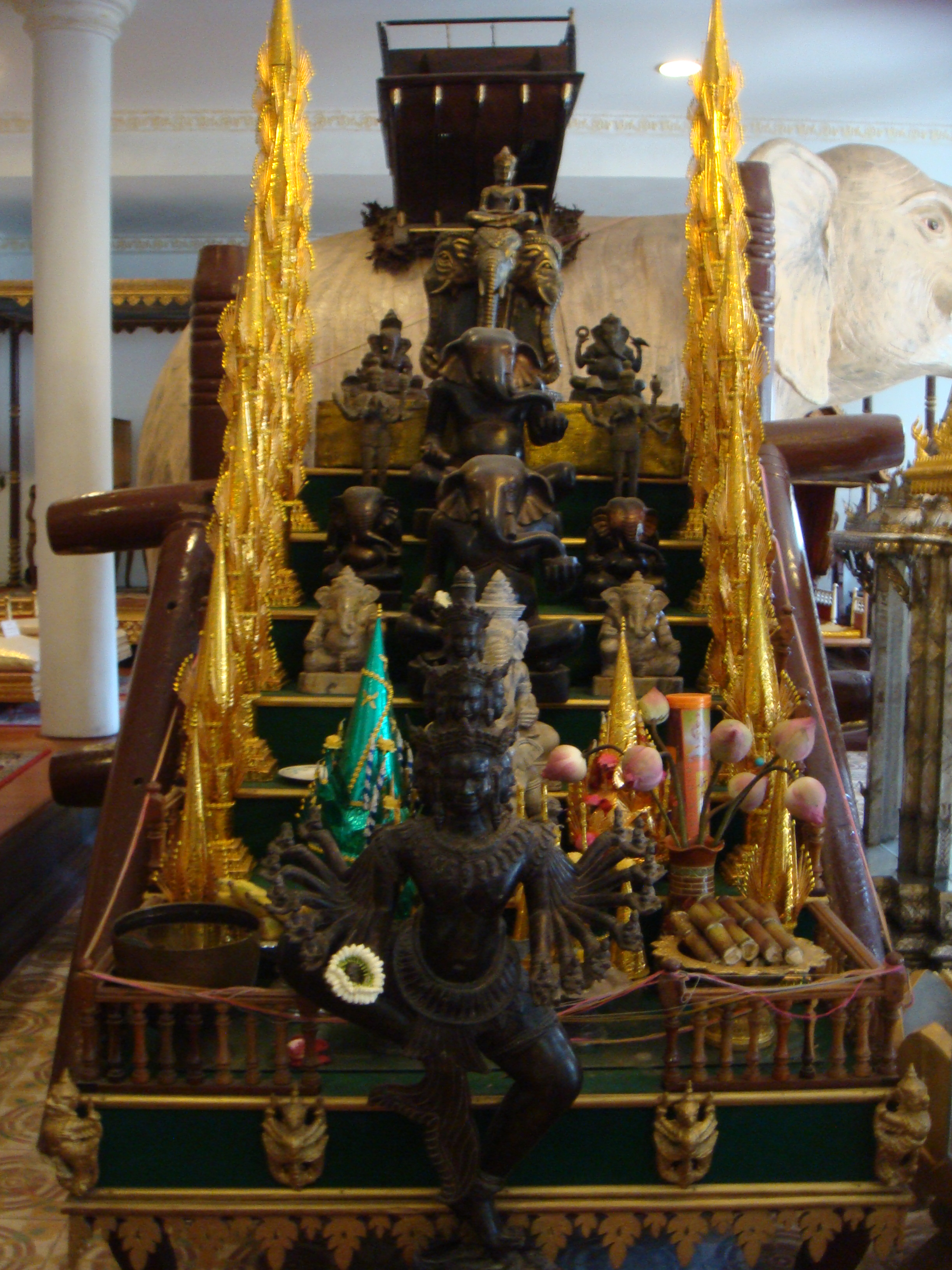 The hindism monastry in Cambodai